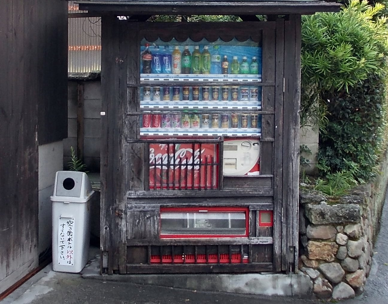 Coca-Cola vending machine at Samurai Residence, Chiran, Kagoshima, Japan